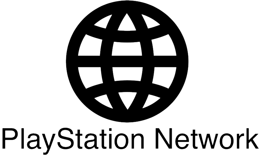 PlayStation Network's logo